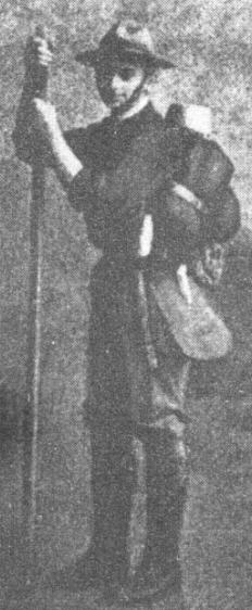 Ukrainian Sich Riflemen Osyp Yarumovych during his membership in Plast